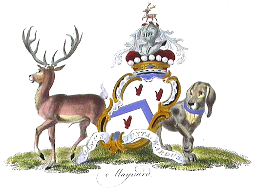 Canting arms of Maynard: Argent, a chevron azure between three sinister hands couped at the wrist gules, as borne by Viscount Maynard.